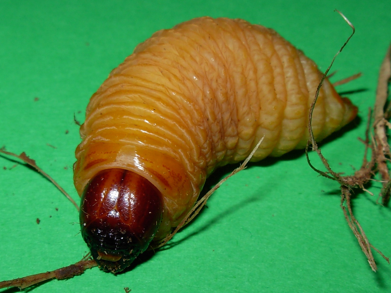 Rhynchophorus ferrugineus larva